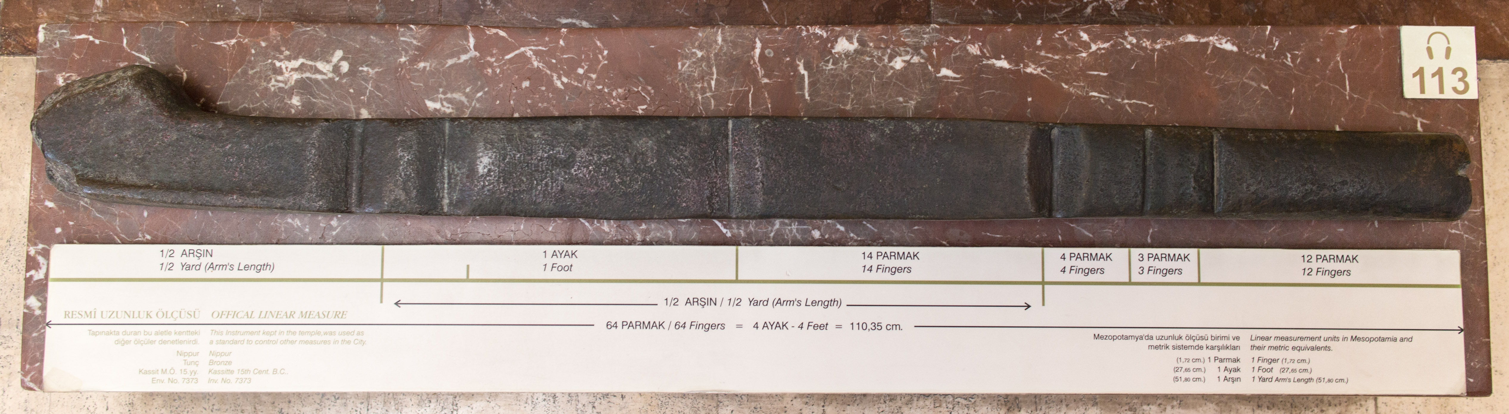 The Nippur cubit. Exhibit in the Archeological Museum of , Turkey